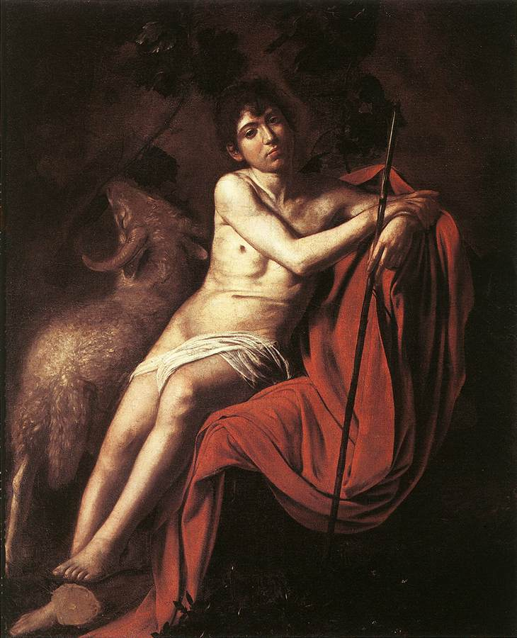 John the Baptist, by Caravaggio (1571-1610), from Web Gallery of Art. Web gallery of Art has agreed to use of images on Wikipedia.